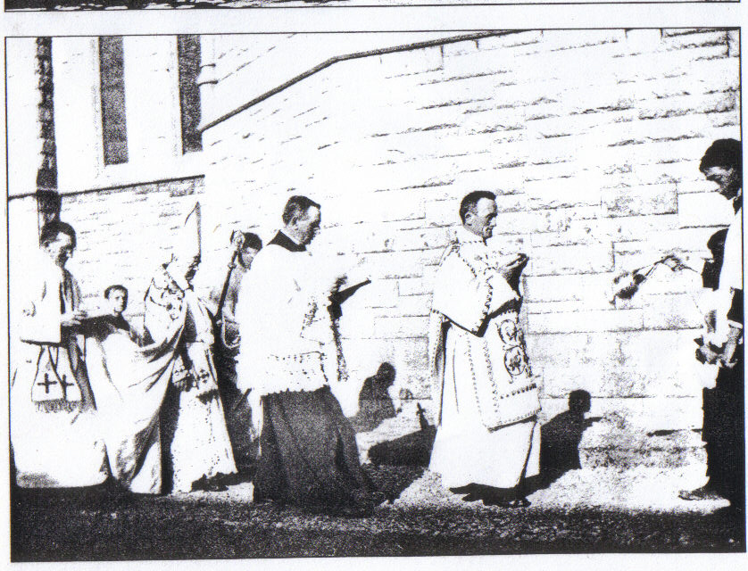 Bishop Browne Consecrating St. Colman's Cathedral 1919